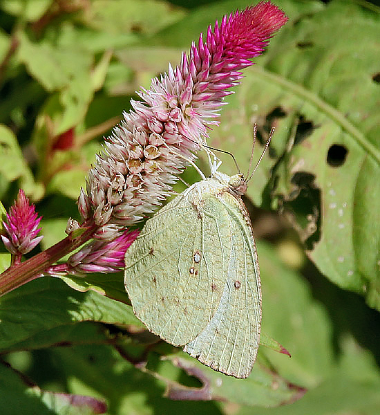 Mottled emigrant Catopsilia pyranthe in Kolkata, West Bengal, India.